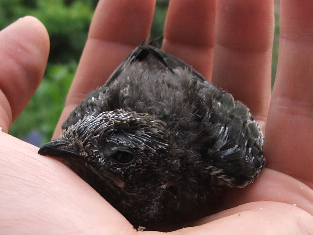 Swift, 2-3 weeks old, fallen out of its nest